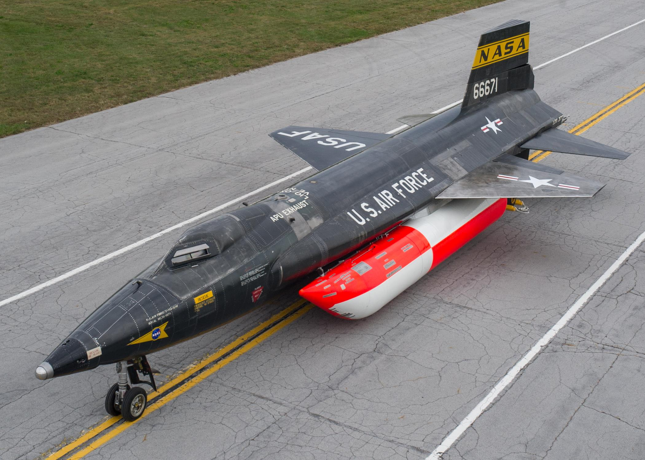 The North American X-15A-2 was moved from the restoration hangar to the museum’s new fourth building on Oct. 2, 2015. The X-15 became the first aircraft to be moved into the fourth building, where it will be part of the expanded Space Gallery.